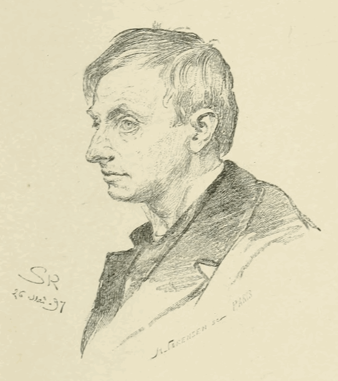 This drawing of the Danish Nobel Laureate Karl Gjellerup was done for Gjellerup's book Konvolutten. Uploaded from in jp2 format, cropped and saved to png format by uploader.